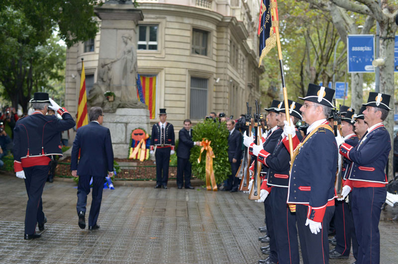 2013 Institutional event of the National Day of Catalonia - Artur Mas al Monument a Rafael Casanova